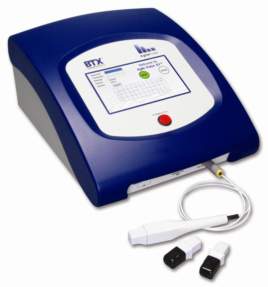 Agile Pulse In Vivo Electroporation System for enhanced vaccine delivery manufactured by BTX Harvard Apparatus, Holliston MA USA